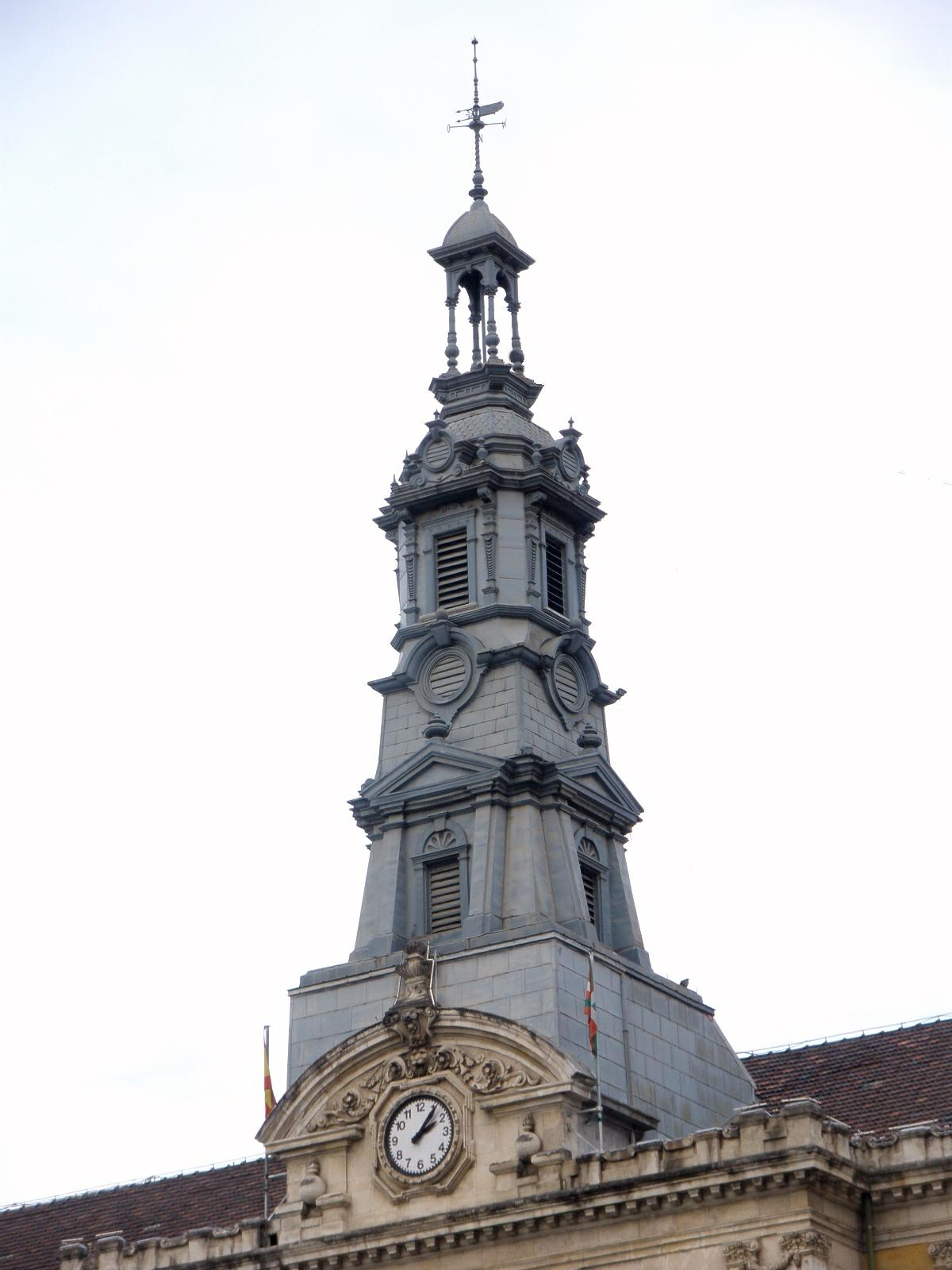 Chapitel del Ayuntamiento de Bilbao